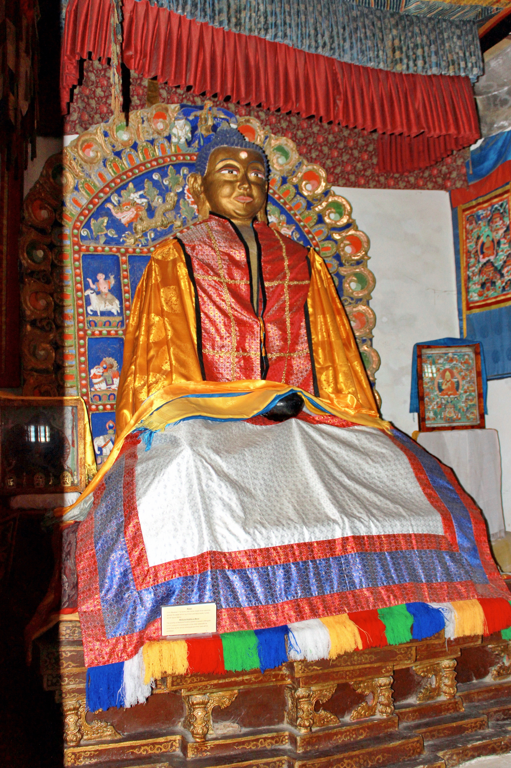 Buddha Amitābha (The Buddha of Immeasurable Life and Light). Main Temple in the Erdene Zuu Monastery. Kharkhorin, Övörkhangai Province, Mongolia.